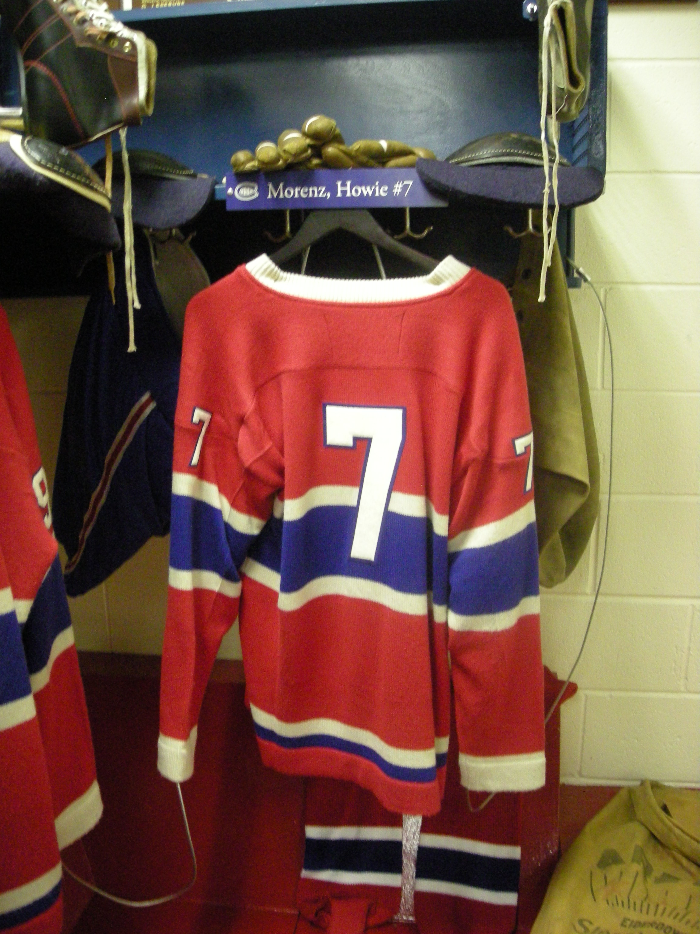 Howie Morenz's jersey in the replica of the Montreal Canadiens dressing room at the Hockey Hall of Fame in Toronto, Ontario (Canada).